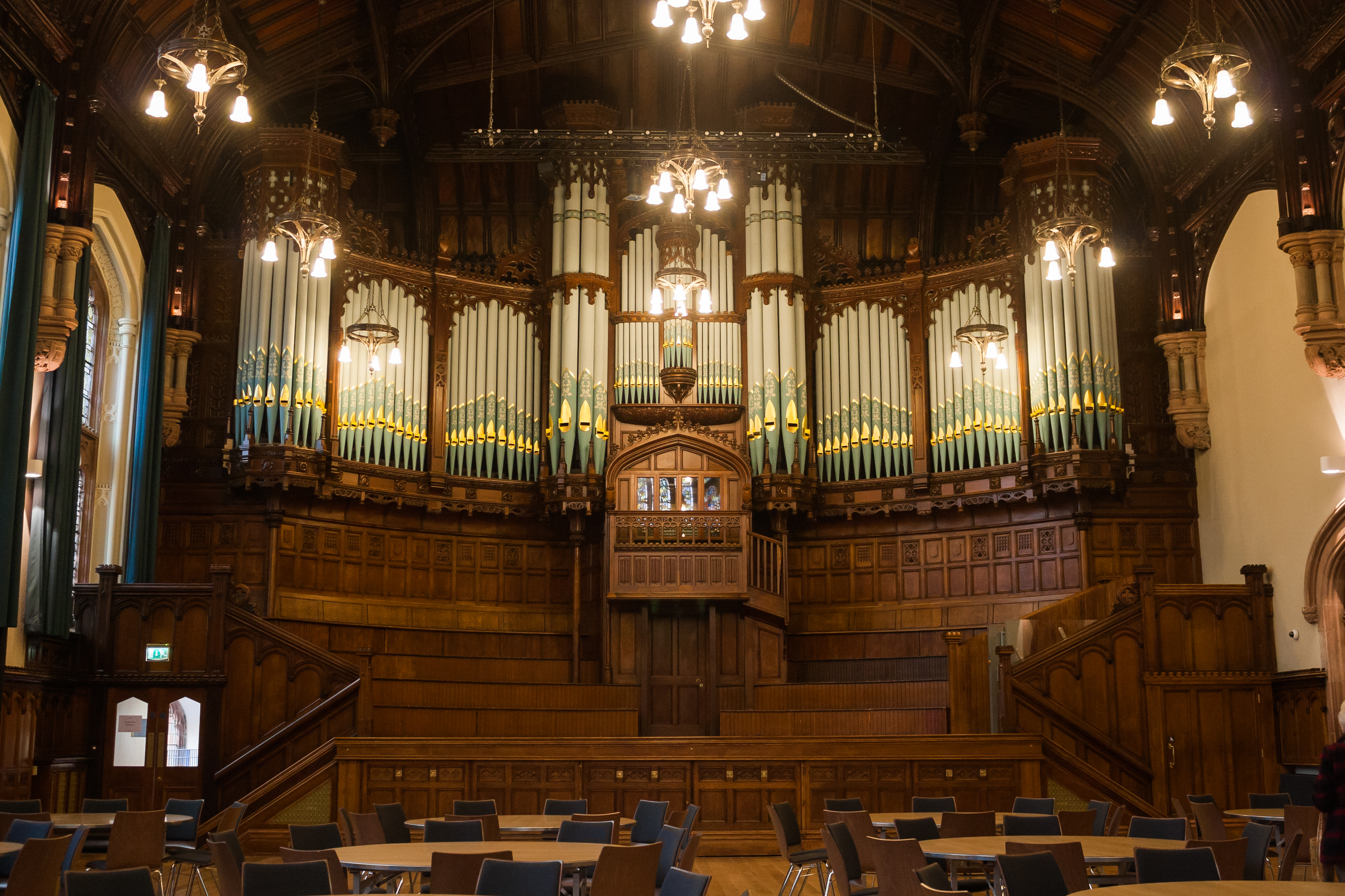 Pipe organ in the main hall, first floor. The organ was installed in 1891 at a cost of £2,000, then destroyed in the fire of 1908, and rebuilt in 1914. (See report by the Belfast Telegraph.)